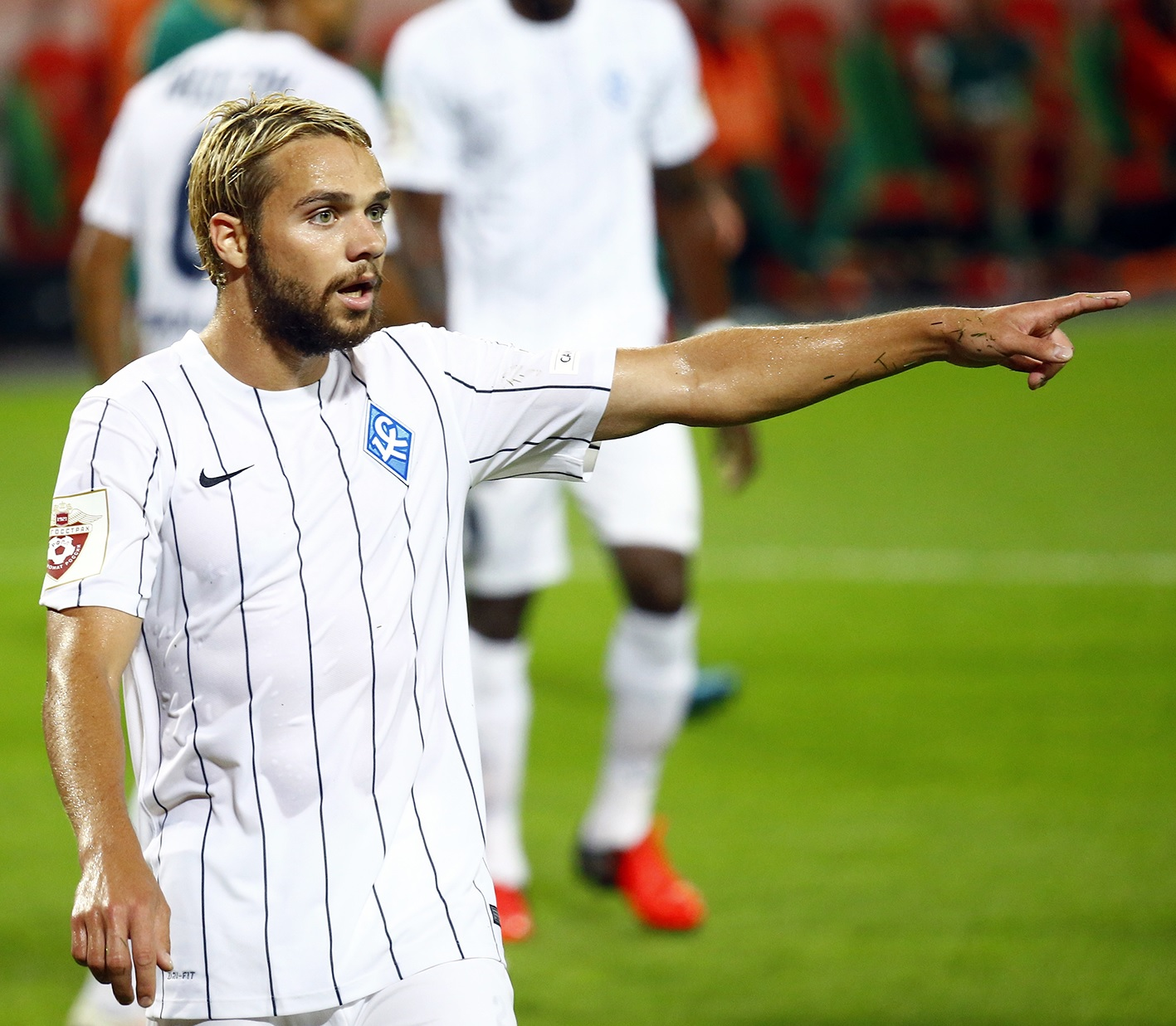 Yevgeni Bashkirov with FC Krylia Sovetov Samara in a game against FC Lokomotiv Moscow.